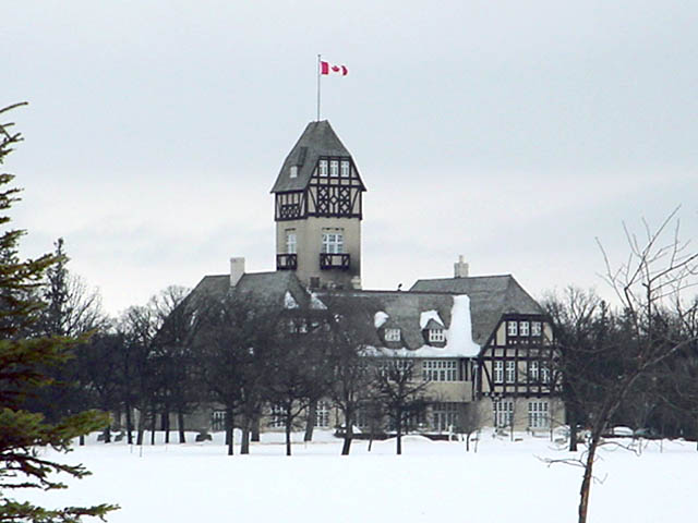 Assiniboine Park. The Pavilion in Winter.